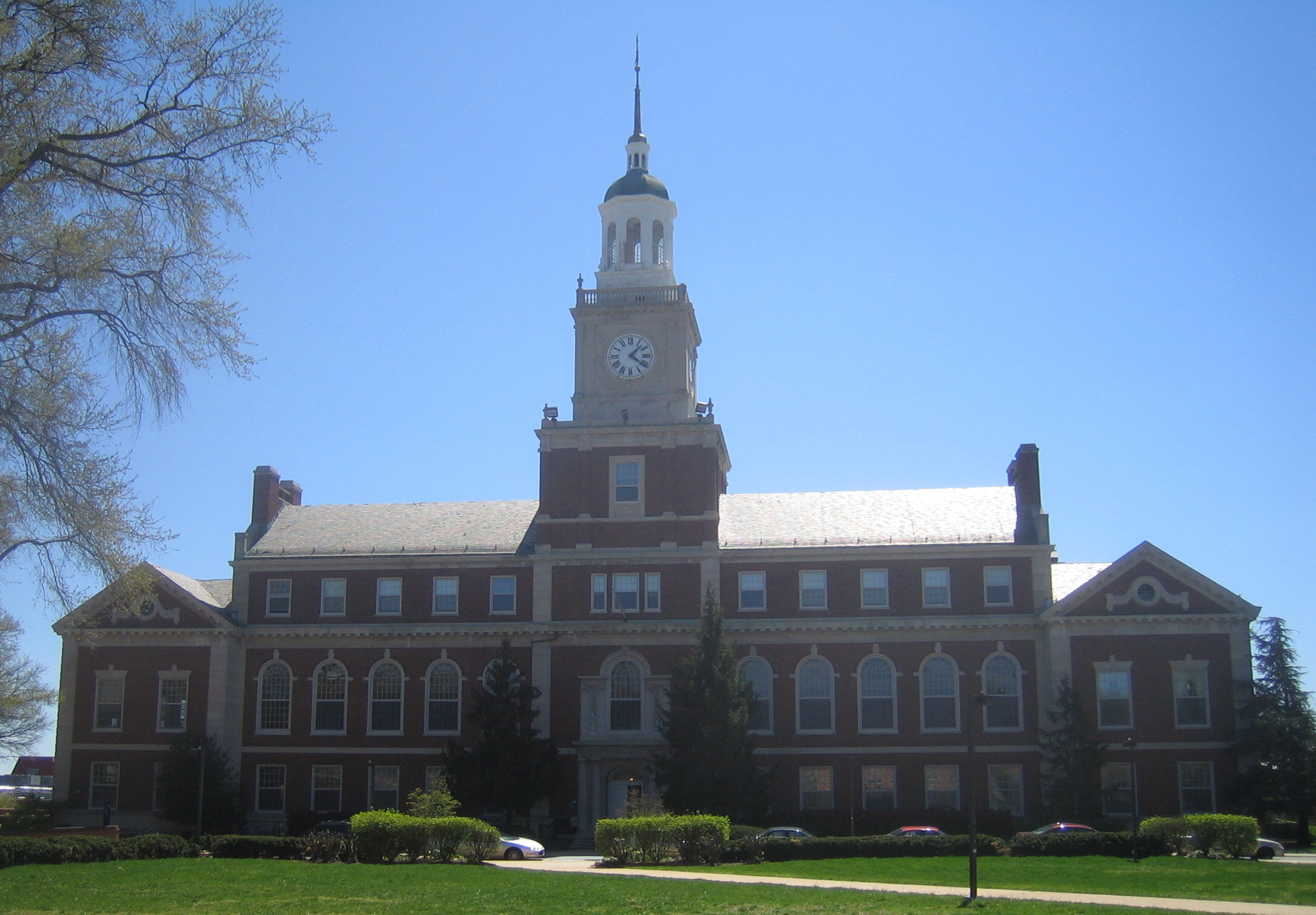 The Founders Library — at Howard University, Washington, D.C. Designed by African American architect Albert I. Cassell. Photo taken 9 April 2006 with Canon Powershot SD300. Category:Images of Washington, D.C.